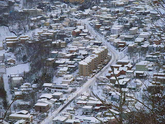 Hokkaido Prefectural Road 89 Sapporokanjō Line. Sapporo, Hokkaidō prefecture, Japan.